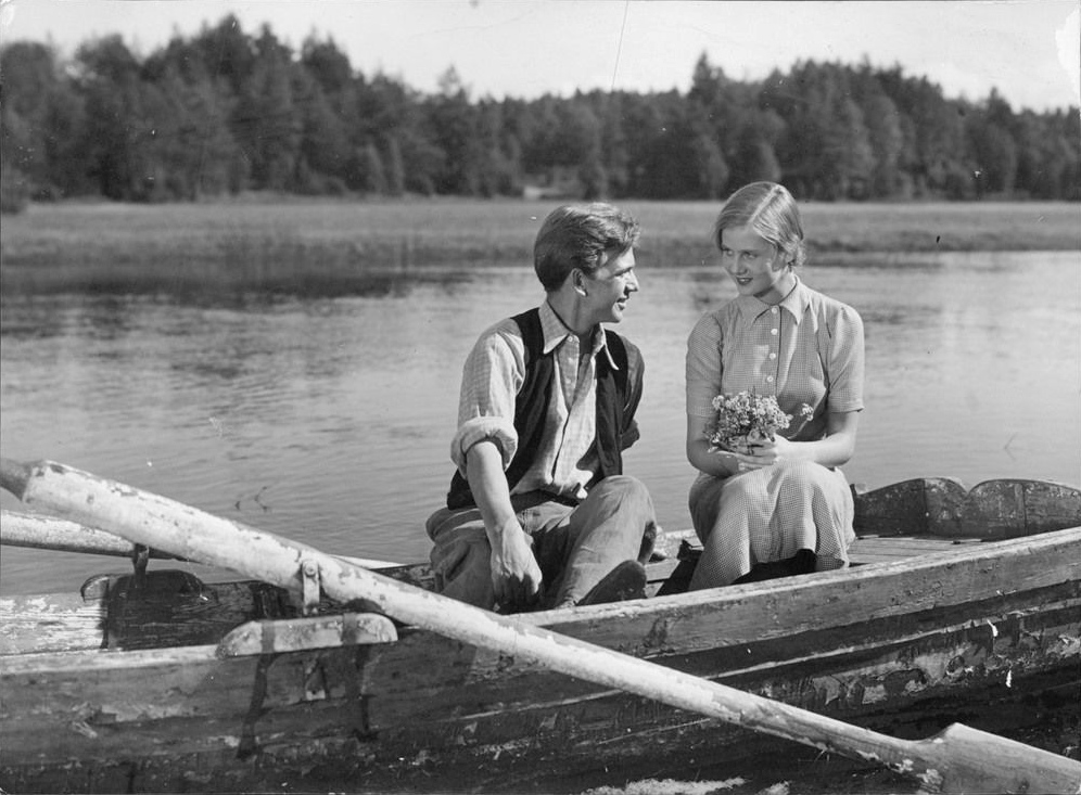 A scene from the film "Ordet" (The Word) from 1943, with Stig Olin as Anders and Inga Landgré as Ester.